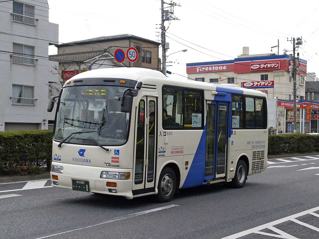 Fleet of Keisei Bus, for shuttle bus between Tokyo Rinkai Hospital and Kasai station. Car presented from Dai-ichi Pharmacy. Model: Hino Liesse PB-RX6JFAA License plate: TKA200 I---1 Place: Naka-kasai, Edogawa ward, Tokyo Japan.